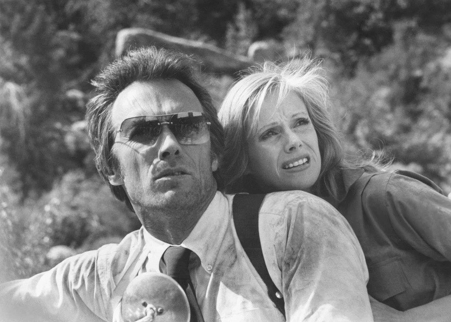 Film still of Clint Eastwood and Sondra Locke in The Gauntlet (1977)